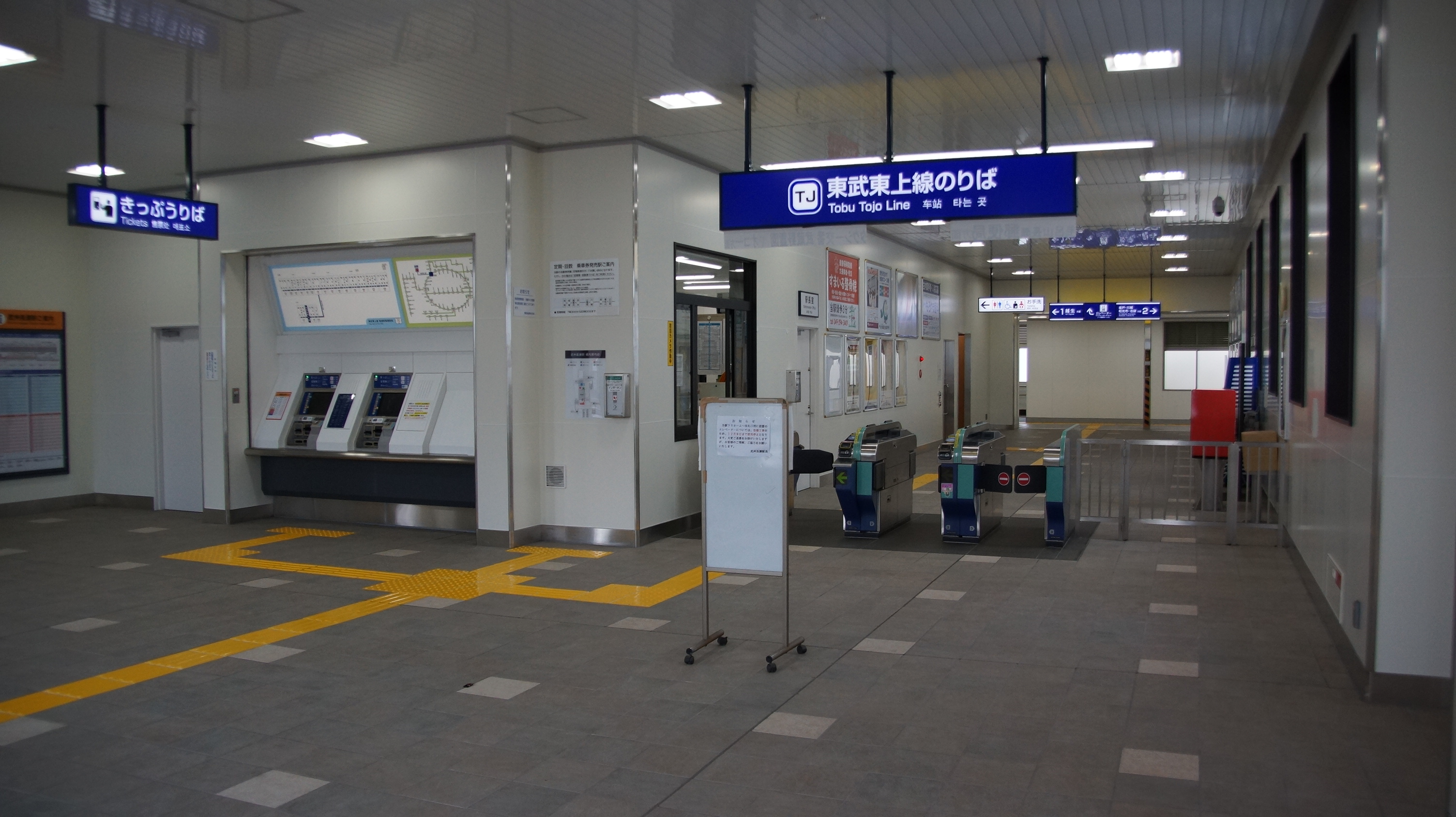 The ticket vending machines and ticket barriers at Bushu-Nagase Station on the Tobu Ogose Line in Moroyama, Saitama, Japan